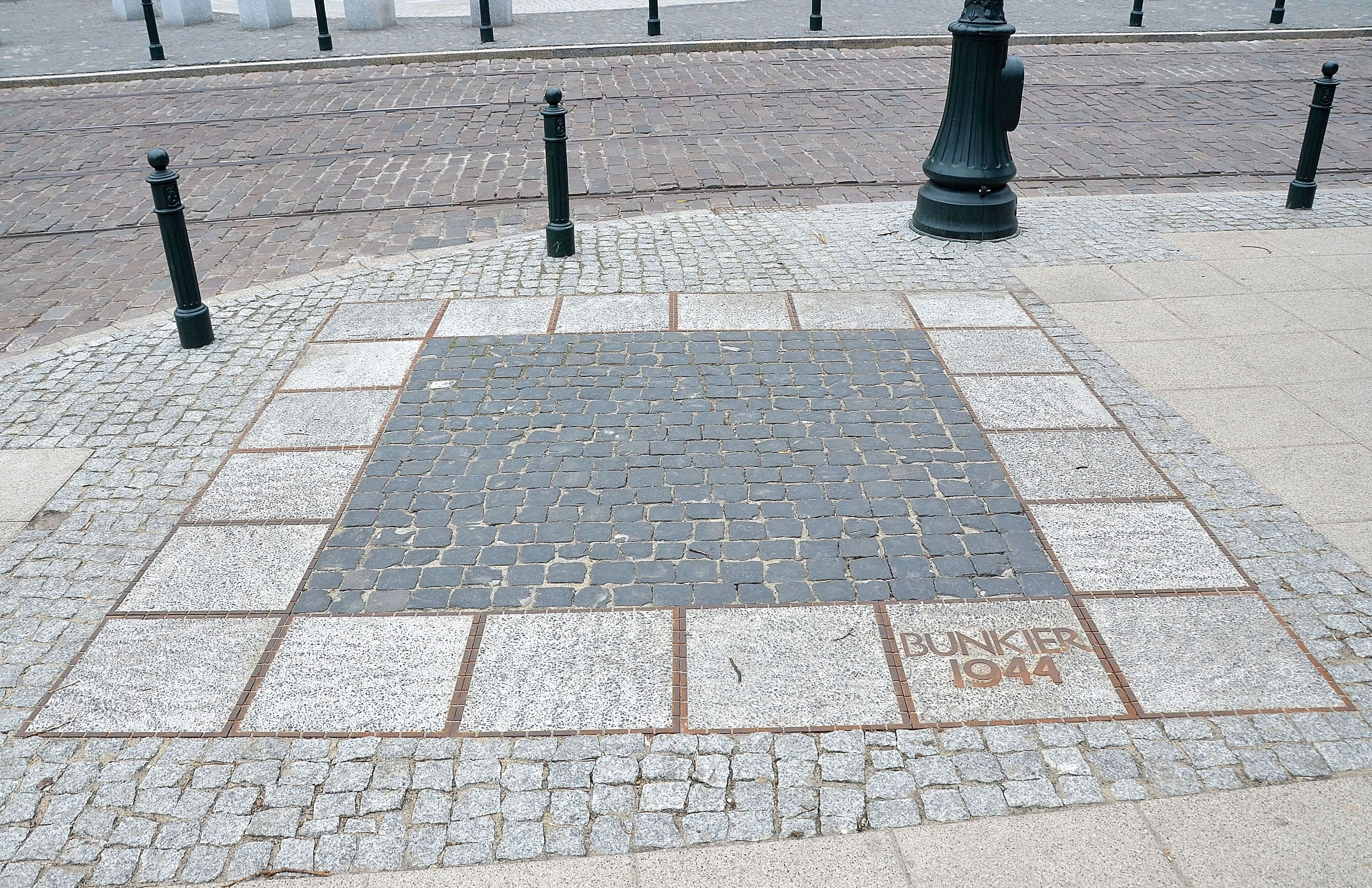 Pavement marker of the German bunker from 1944 at the intersection of Chłodna and Waliców streets in Warsaw